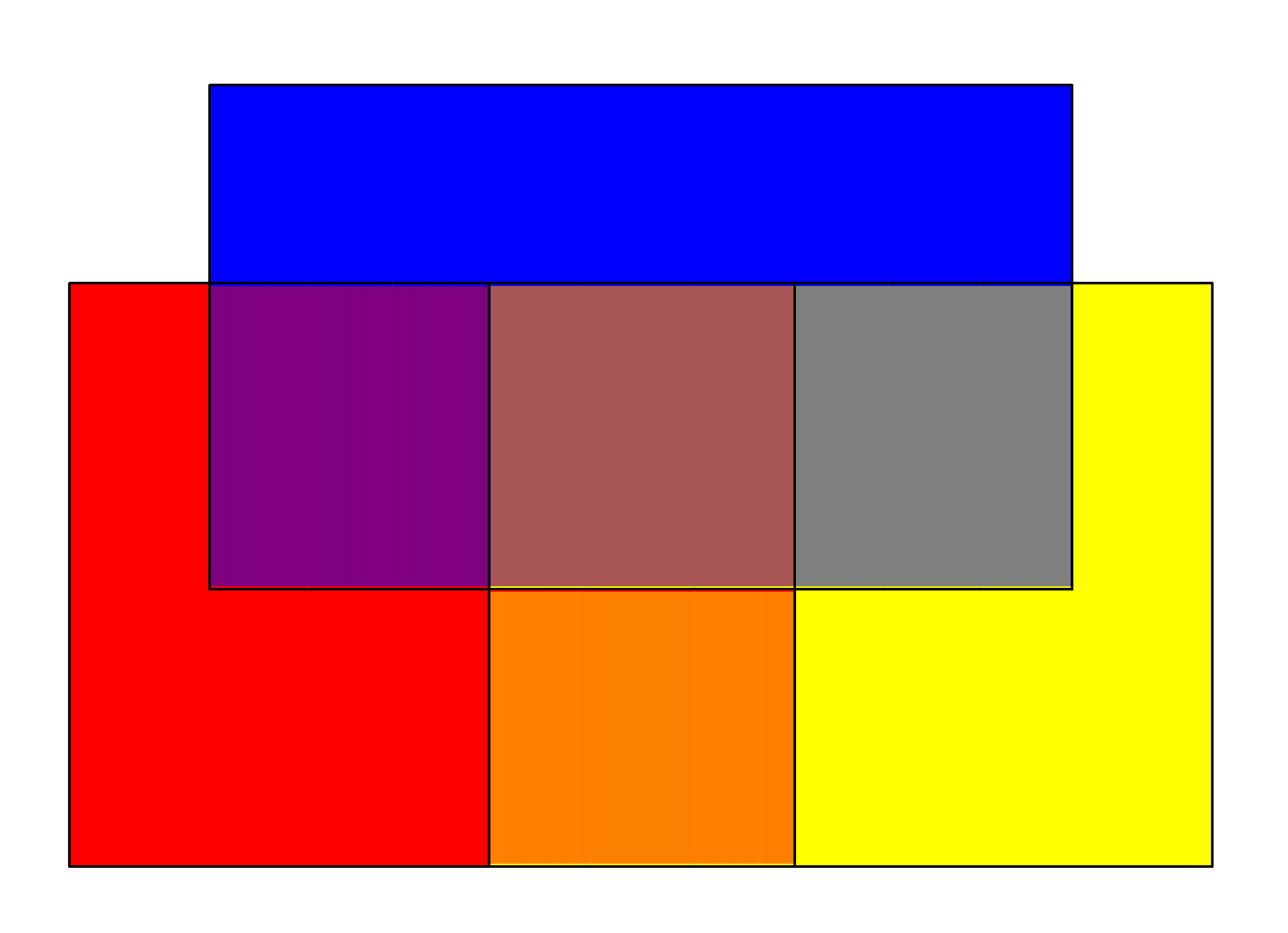 Digital mixing of RYB colors by proximity, using red, yellow, and blue lines.